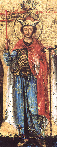 Detail of Andreja Raičević's icon dating to ca. 1645, depicting Despot Jovan Branković, held at the Krušedol monastery.[1]